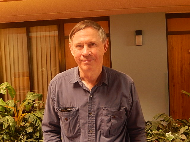 I took photo of Texas author Patrick Dearen (It mistakenly says "Dannen" in the file name.) in Odessa, TX, with Nikon camera.